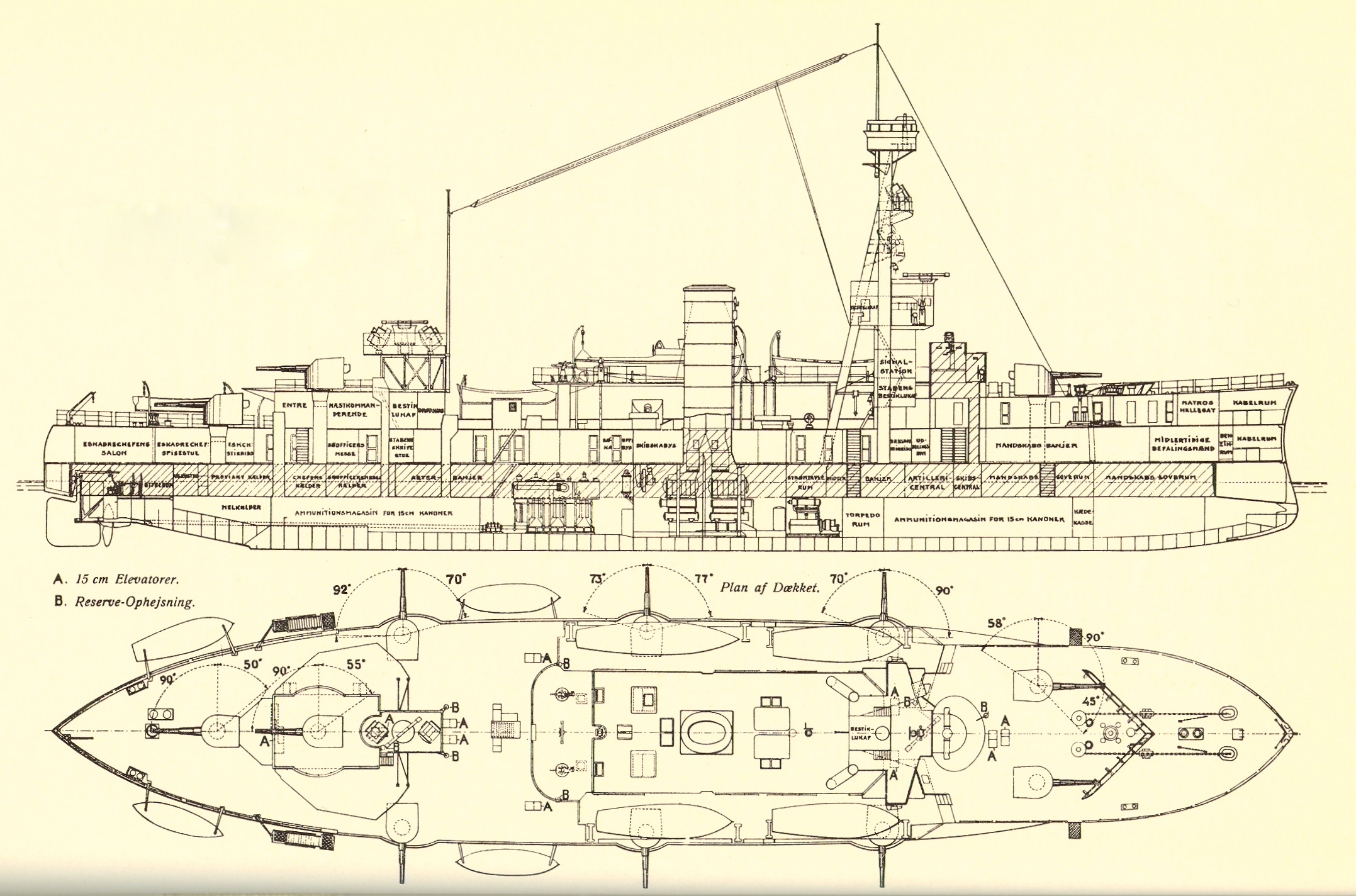 Official plan of Danish Coastal defence ship Niels Juel, launched 1918, serving 1923 - 1943